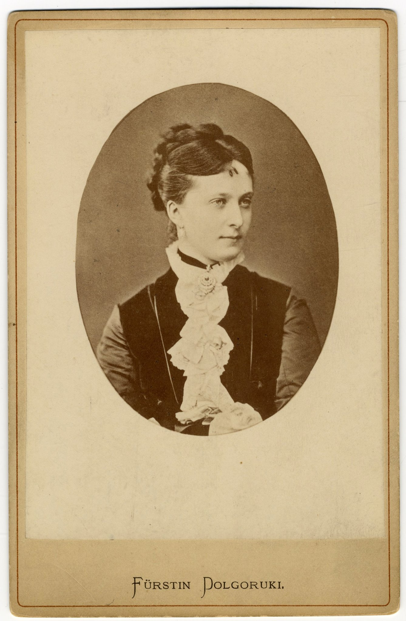 Princess Katharina Dolgoruki (Ekaterina Mikhailovna Dolgoruka) (1847-1922), mistress of Alexander II. of Russia